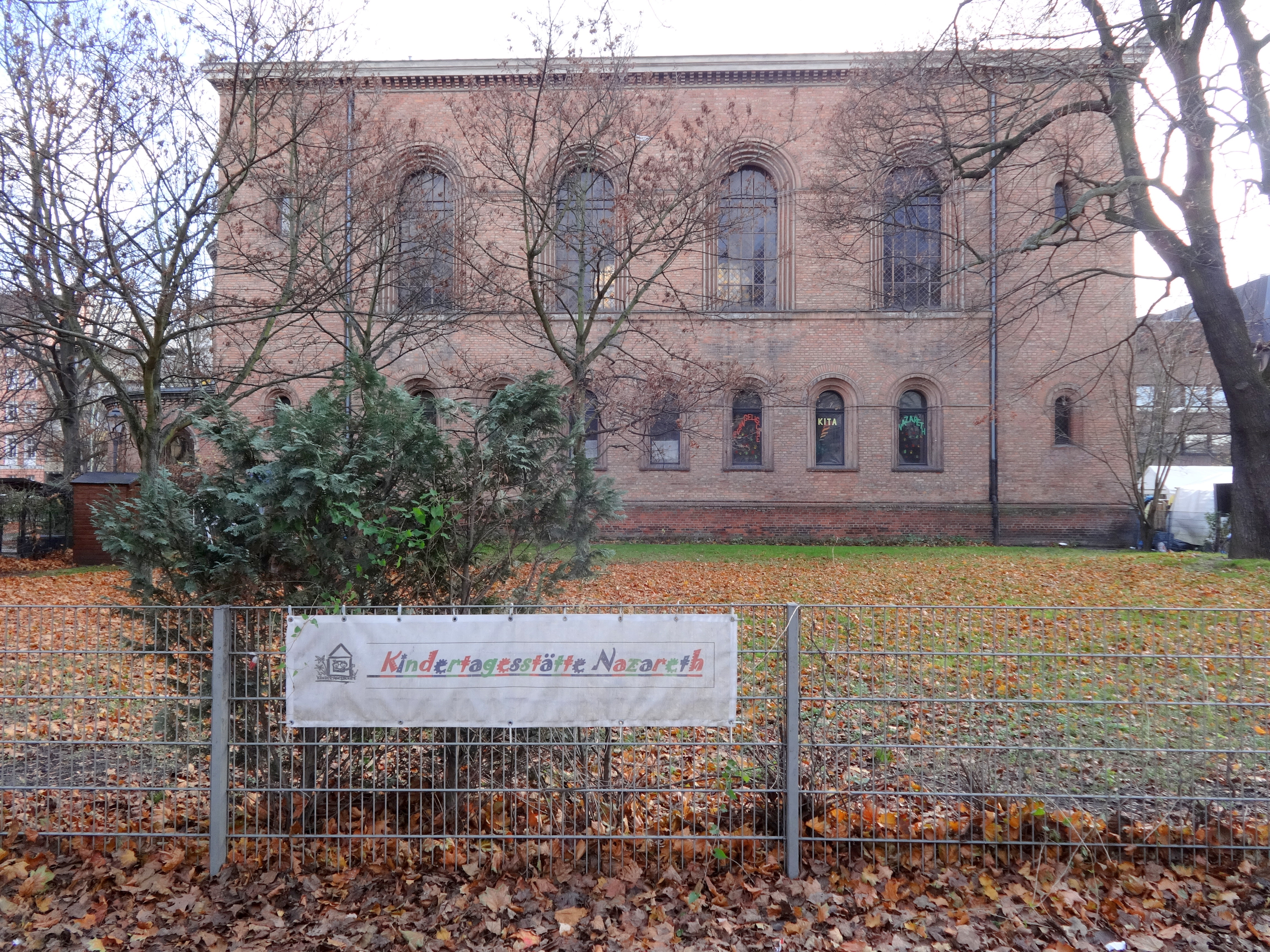 Berlin-Wedding in November